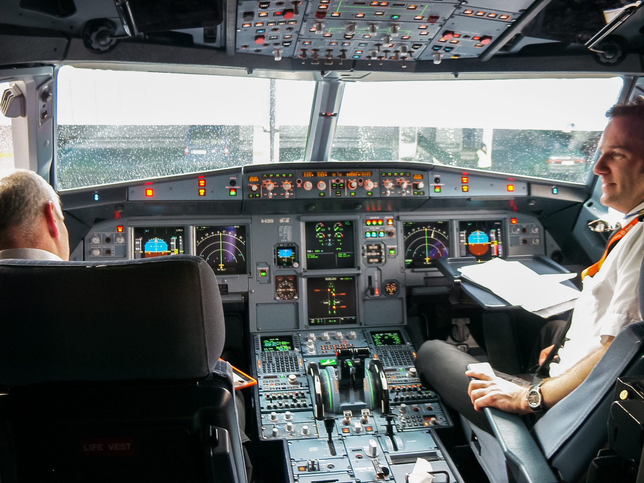 The cockpit of an easyJet Airbus A319 on March 28, 2006 after a landing in Tallinn.